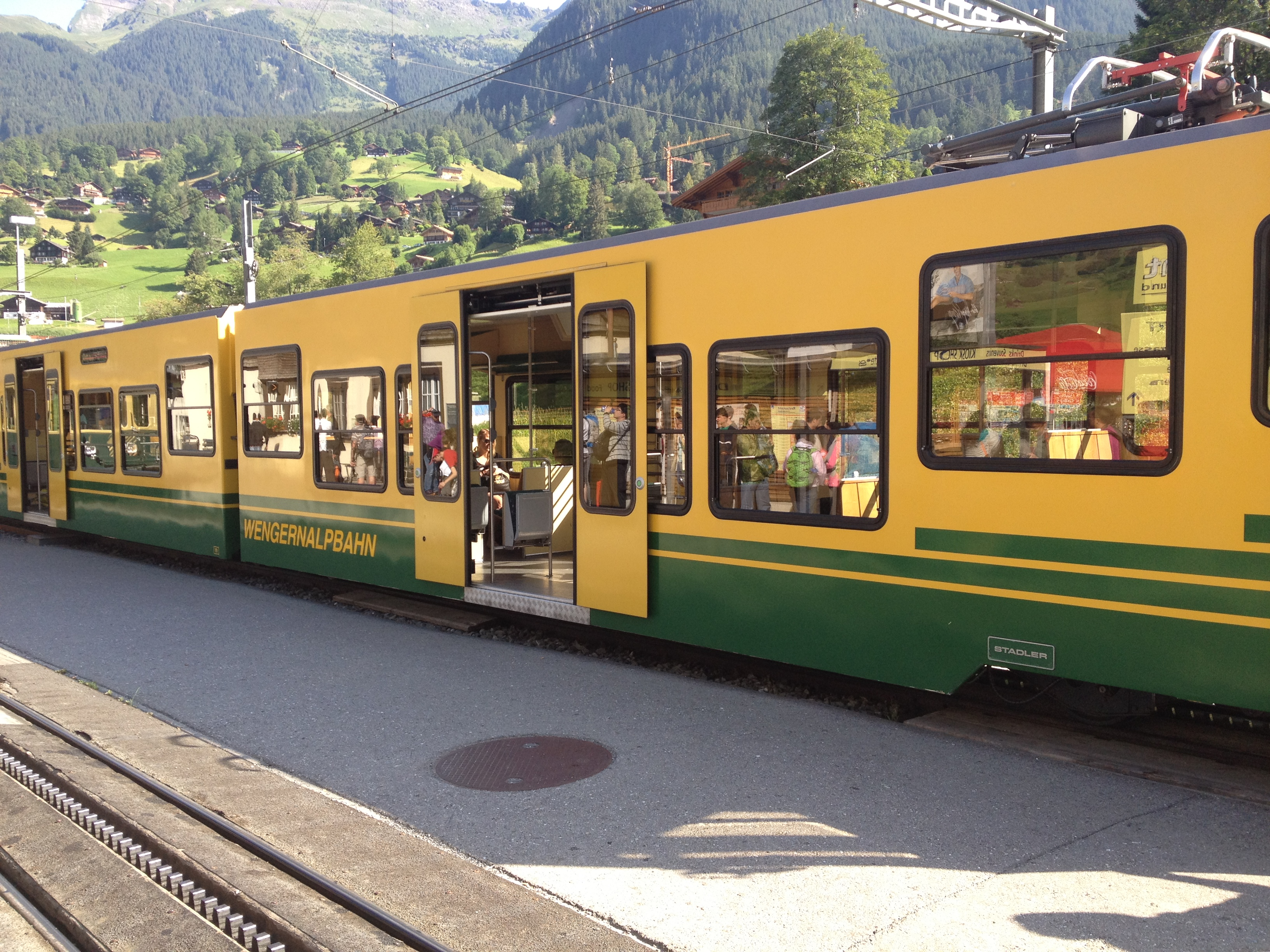 A Wengernalpbahn train waits at Grindelwald Grund station in Switzerland, destined for Grindelwald.